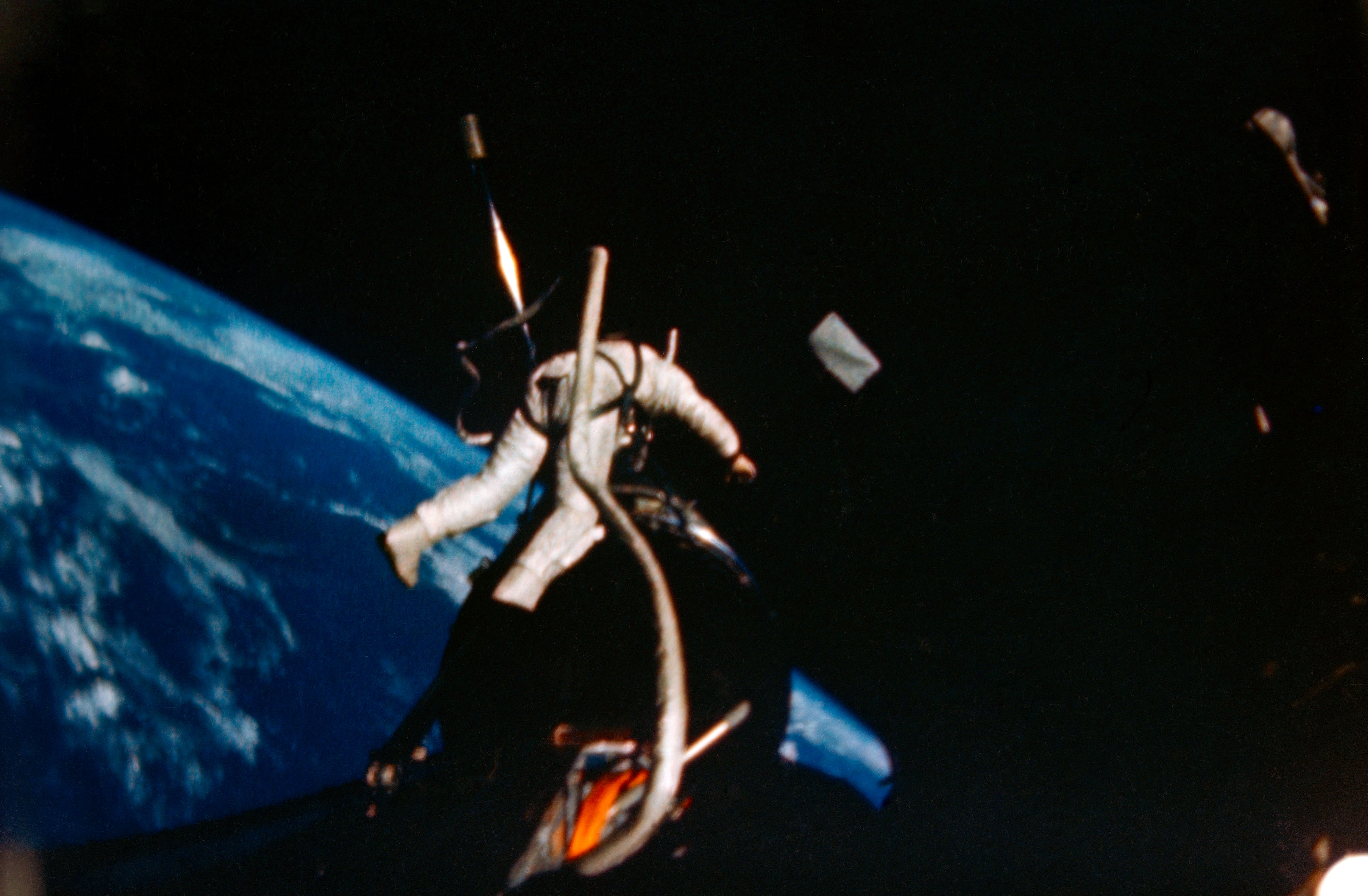 Public Domain. Credit: NASA Johnson Space Center (NASA-JSC) [VIA PINGNEWS]. Additional information on image and rights from source: Date: 11.12.1966 Title: Astronaut Edwin Aldrin performs EVA during second day of mission in space Description: Astronaut Edwin E. Aldrin Jr., pilot of the Gemini 12 space flight, performs extravehicular activity (EVA) during the second day of the four day mission in space. ID: S66-62939 Credit: NASA Johnson Space Center (NASA-JSC)